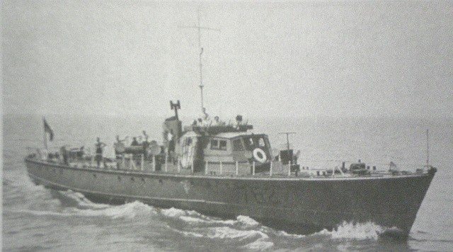 Built by Mac-Craft Ltd., Sarnia, Ontario, she was delivered to the RCN on 18 Apr 1942. While she flew the White Ensign, she was not commissioned into the RCN but instead was listed as a tender to HMCS Sambro, the depot ship for escorts (tenders were not commissioned vessels). Q062 was a "B" Type ML, Displacement: 79 tons, Length: 112 ft, Beam: 17.9 ft, Draught: 4.9 ft, Speed: 20 kts, Complement: 3 officers, 14 men, Armament: 3-20mm. She served with the free French Navy out of St. Pierre et Miquelon (renamed Langlade V112) on the South Coast of Newfoundland from 15 Jan 1943, until the end of the war. After the was she was sold to Consolidated Shipbuilding Corp., New York. Q062 was re-acquired by the navy and became HMCS Wolf 762 in 1954. She was purchased by Orrville Gold in 1964 and was used as a break wall behind the Gold residence on the north shore of lake Eire where it was destroyed by winter ice in the 1970s.